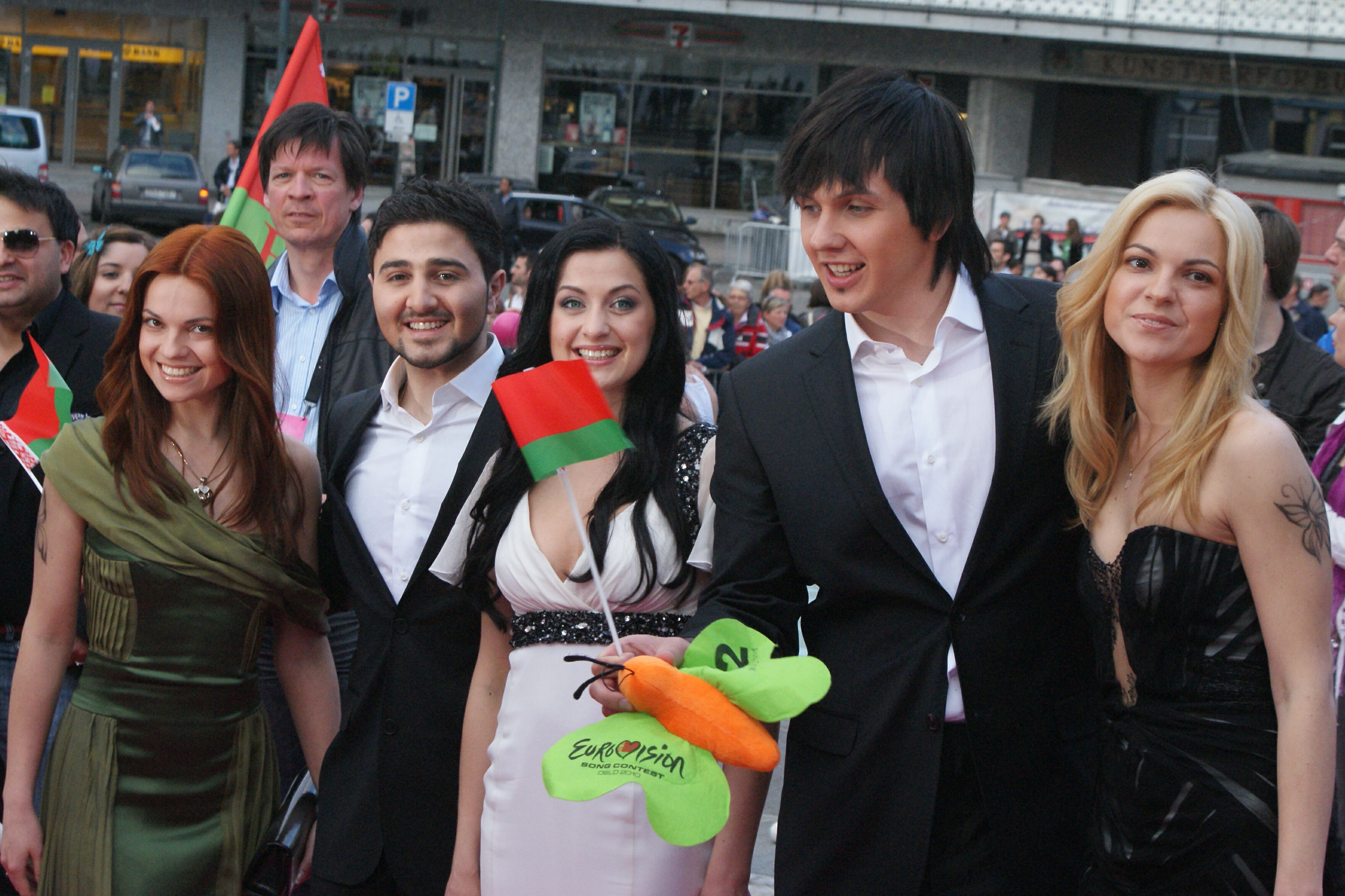 Belarusian band 3+2 before entering the Oslo City hall for the Eurovision 2010 Welcome Party on Monday 24th of May 2010. From left to right [1]: Ninel Karpovich (Нинель Карпович), Egiazar Farashan (Егиазар Фарашян), Yuliya Shishko (Юлия Шишко), Artem Mikhalenko (Артем Михаленко), Alena Karpovich (Алена Карпович)